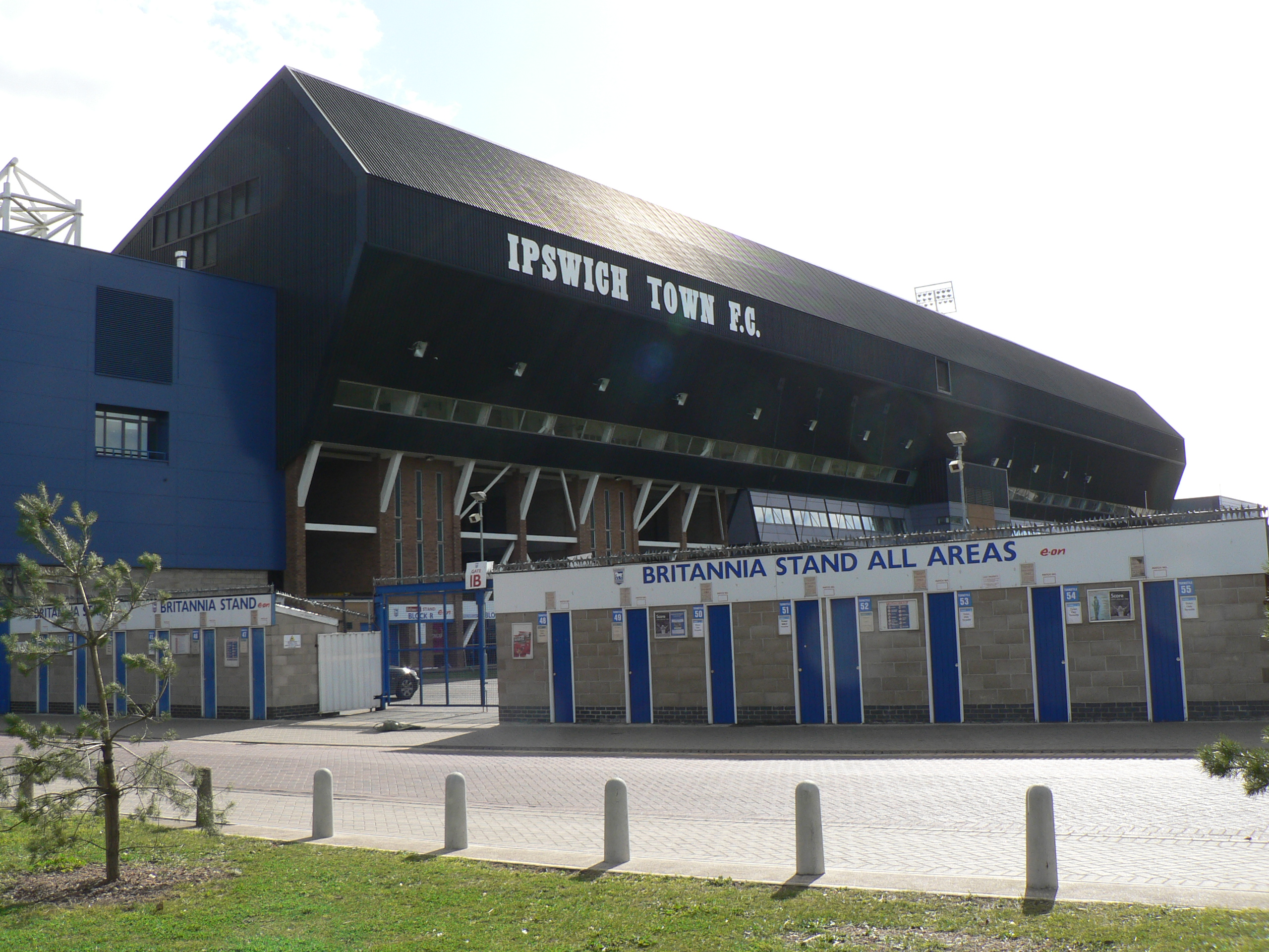 Britannia Stand at Ipswich Town Football Club